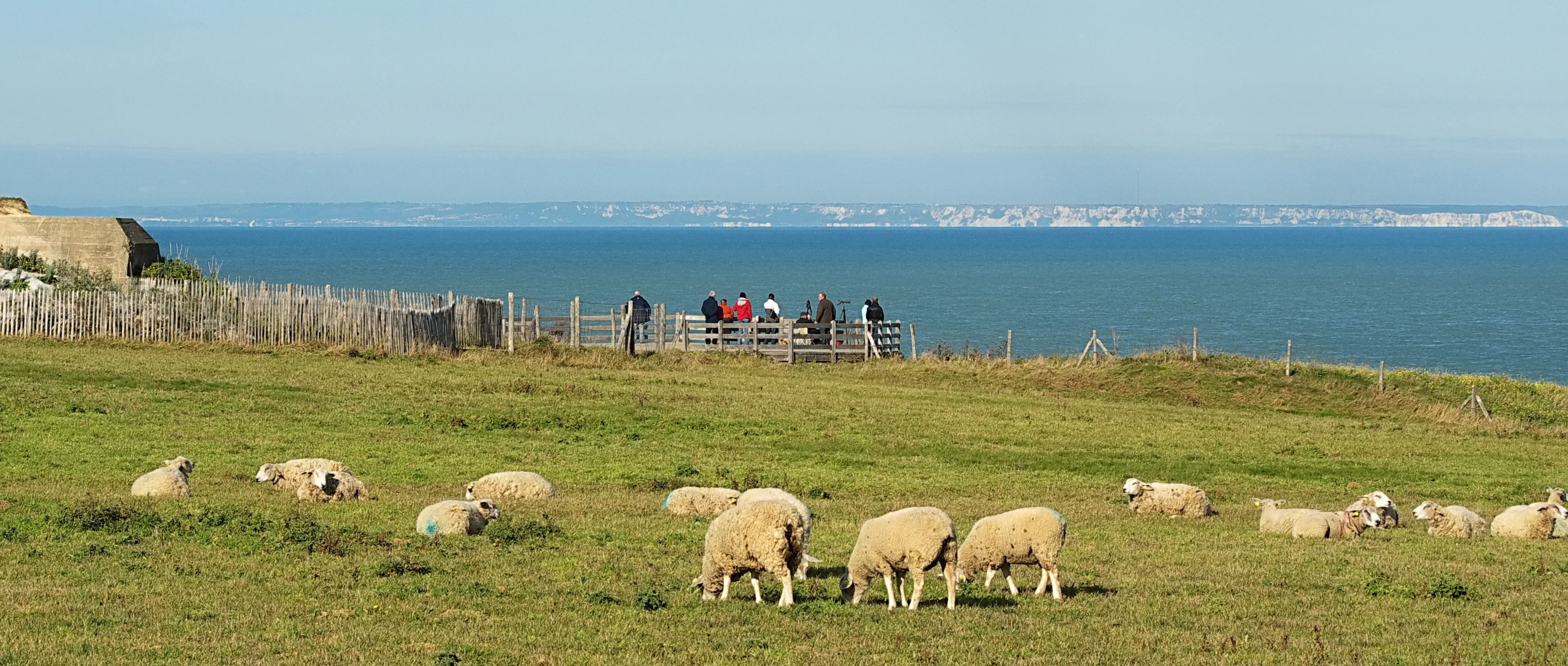 View from Cap Gris-Nez (France) over the English Channel to the cliffs of Dover.